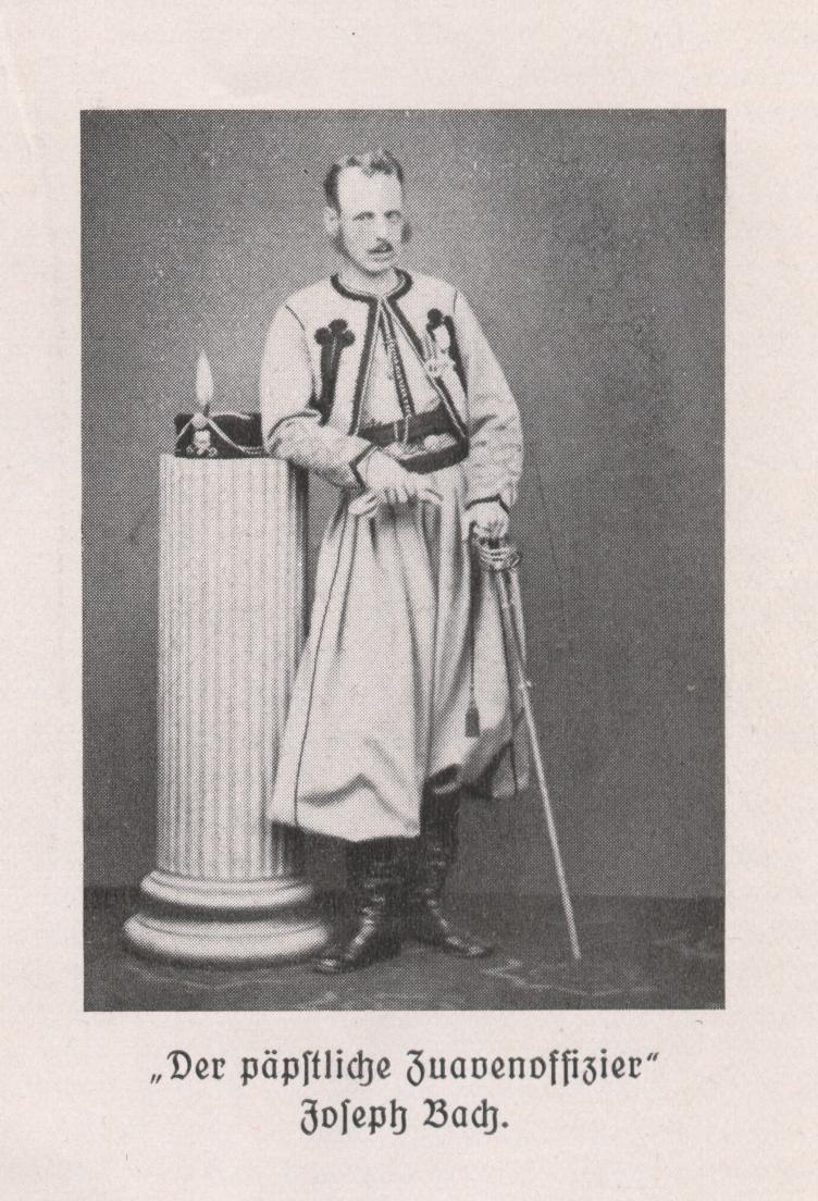 Joseph Alois Bach, papal officer